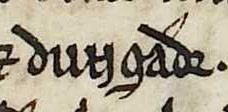 Excerpt from folio 103r of AM 45 fol (Codex Frisianus): "Dunngaðr". The excerpt refers to Donnchadh mac Dubhghaill.